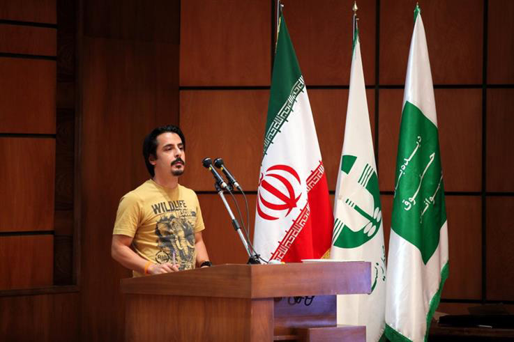 Sepehr Salimi; an Iranian blogger, environmental and animal rights activist, vegetarian and freelance journalist.